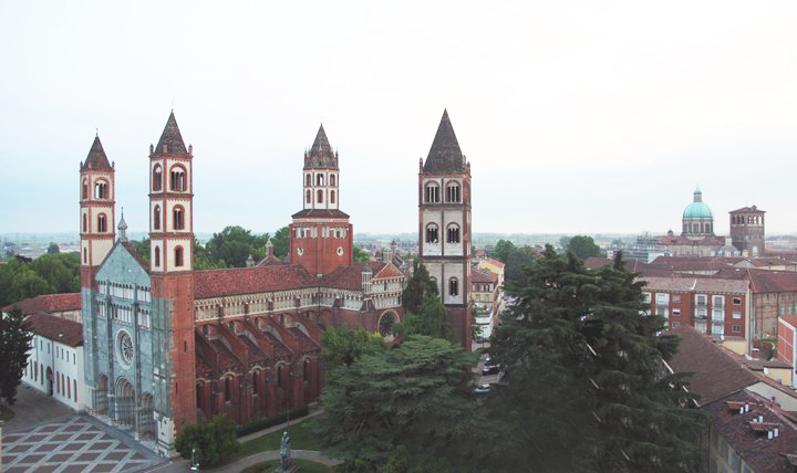 Basilica di S. Andrea Vercelli